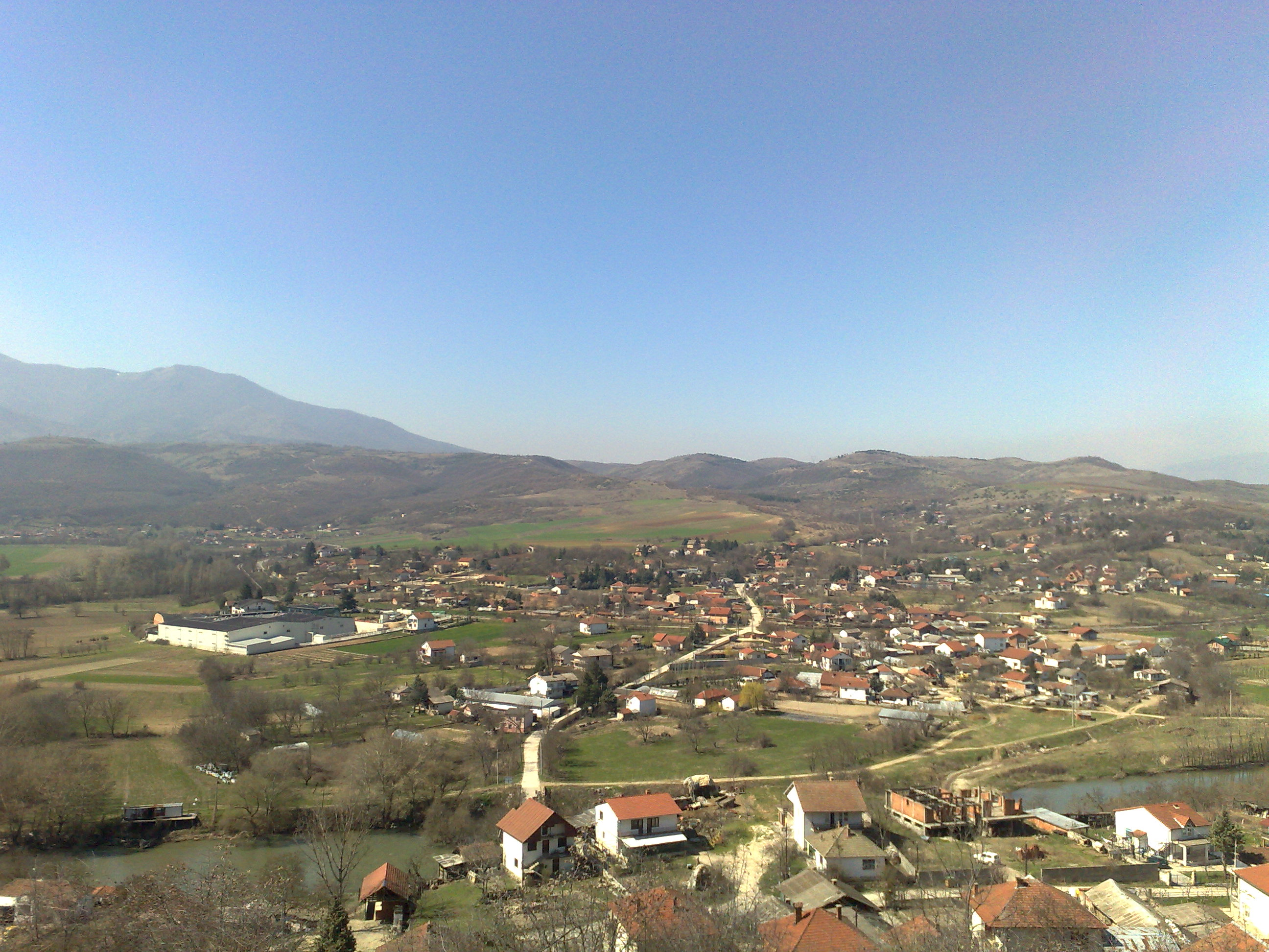 View to the village of Oreshani from the hills over Taor, Skopje region, Macedonia